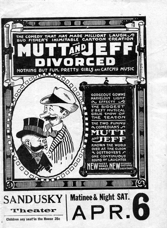 The front cover of a theater program from the Sandusky (Ohio) Theatre for the stage production of Mutt and Jeff: Divorced. The musical comedy was originally presented in 1920.